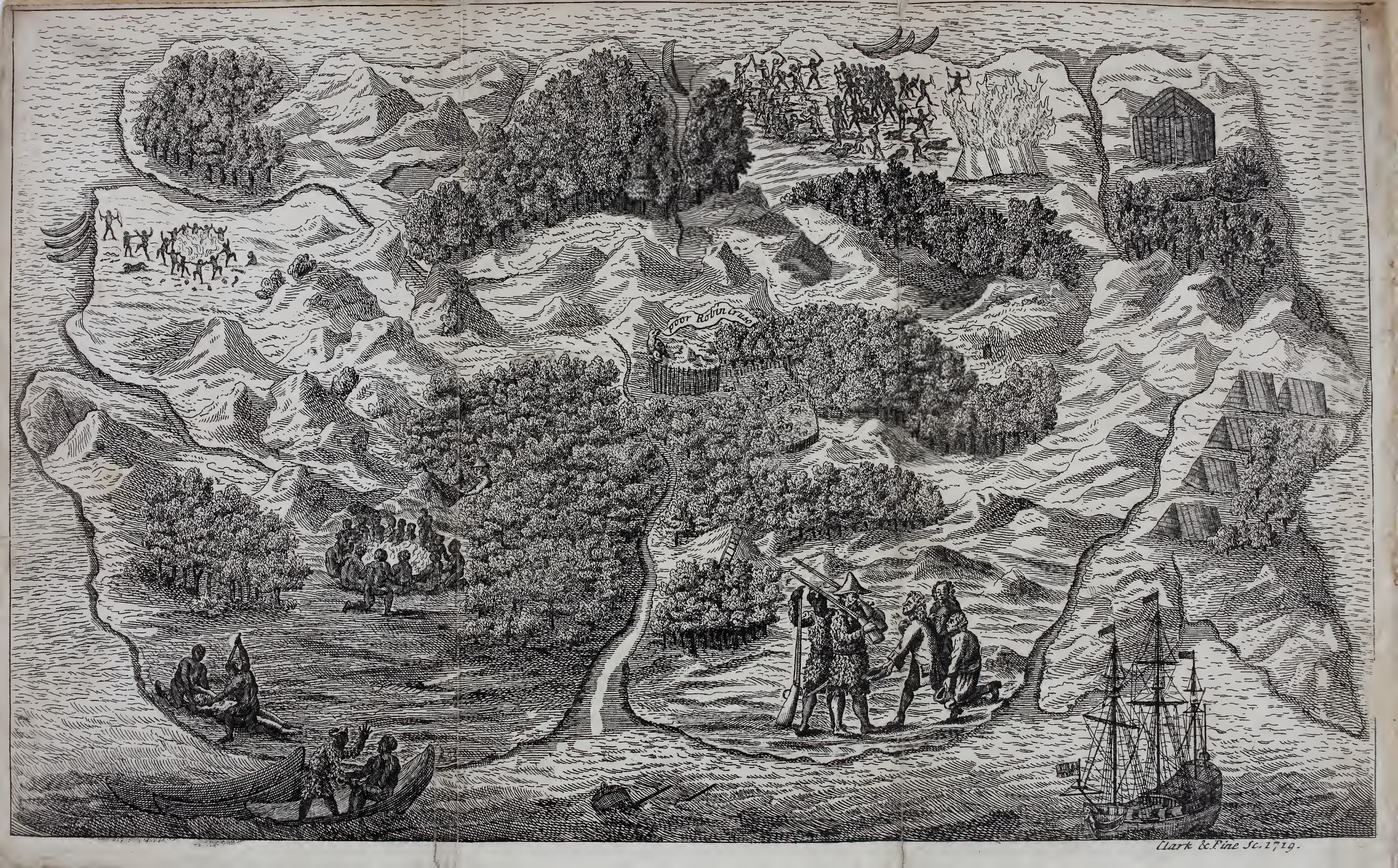 Pictorial map of Robinson Crusoe's island, published in Serious Reflections of Robinson Crusoe by Daniel Defoe